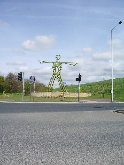 It reminds me of the "Wicker Man" Statue at the northern entrance to Buckshaw Village